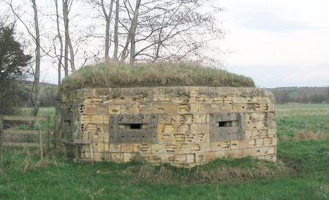 Moon and pillbox A view looking to the northeast towards a pillbox on the bank of the Mells River at Lullington.